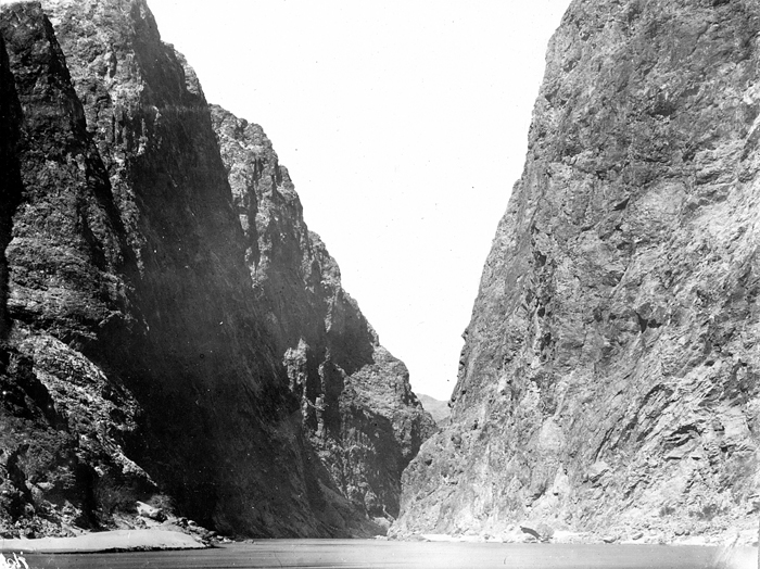 River view of Boulder (Hoover) dam site. Mohave County, Arizona.